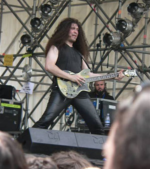 Pier Gonella at Gods of Metal (Italy) 2006